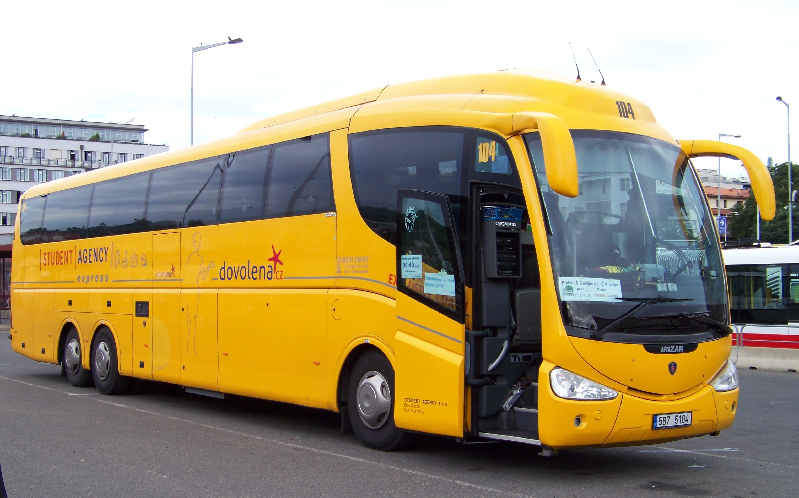 Prague-Smíchov, the Czech Republic. Bus terminal Na Knížecí, a bus of Student Agency.